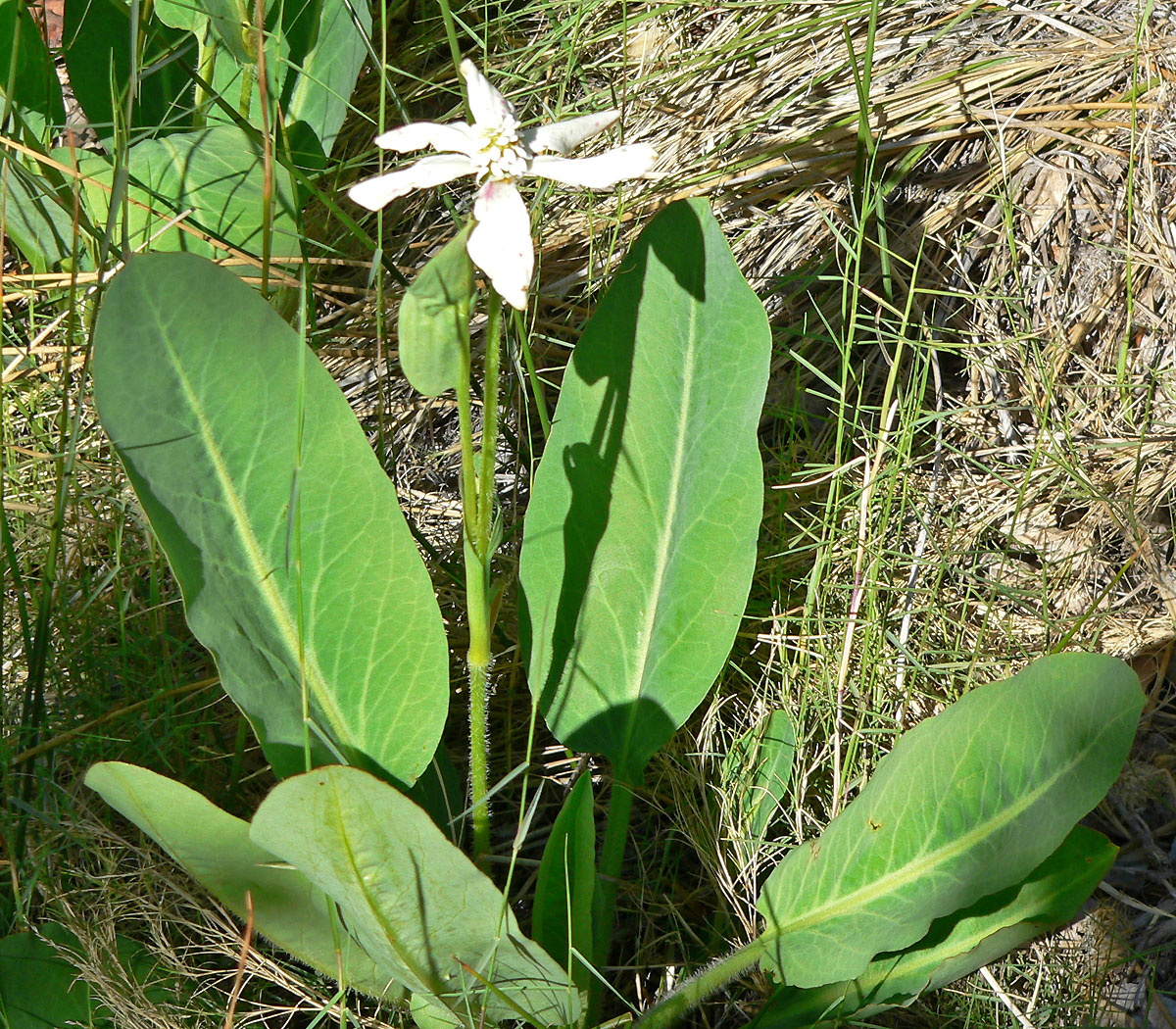 Anemopsis californica in Calico Basin, west of Las Vegas, Nevada